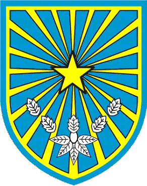 Shield of the city of Probolinggo (Indonesia)